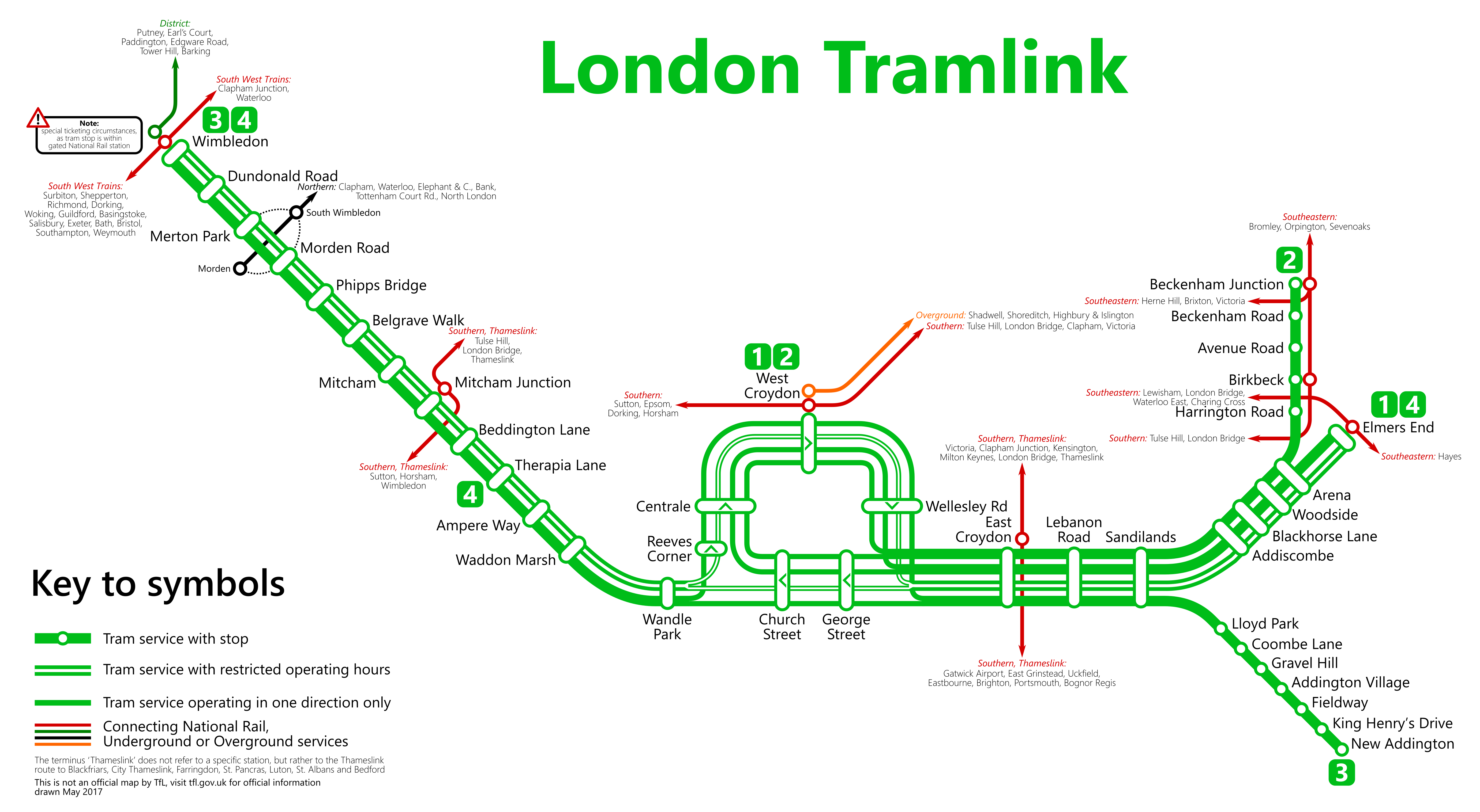 Map of the London tramlink as of 2017